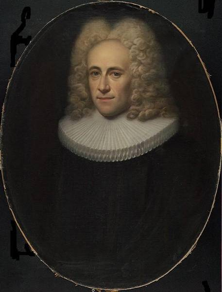 Portrait of Johann Christoph Wolf, Staatsbibliothek Hamburg